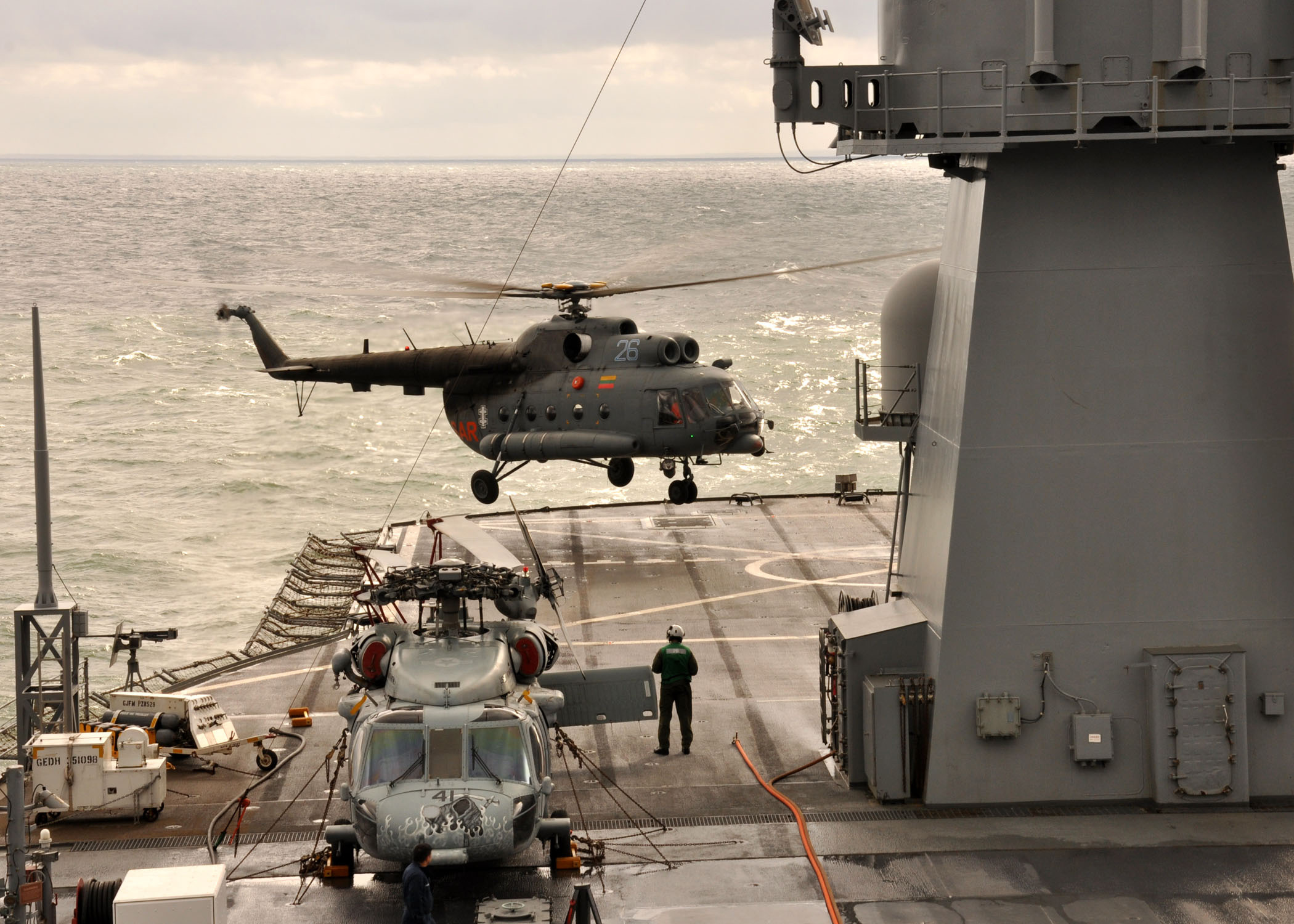 BALTIC SEA (Sept. 17, 2010) A Lithuanian MI-8 (Hip) military utility helicopter lands aboard the amphibious assault ship USS Mount Whitney (LCC/JCC 20) during deck landing qualification training as part of exercise Jackal Stone 2010 (JS10). JS10 is a 10-day special operations exercise intended to promote cooperation and interoperability between participating forces from Croatia, Latvia, Lithuania, Poland, Romania, Ukraine, and the United States. (U.S. Navy photo by Mass Communication Specialist 2nd Class Sylvia Nealy/Released)